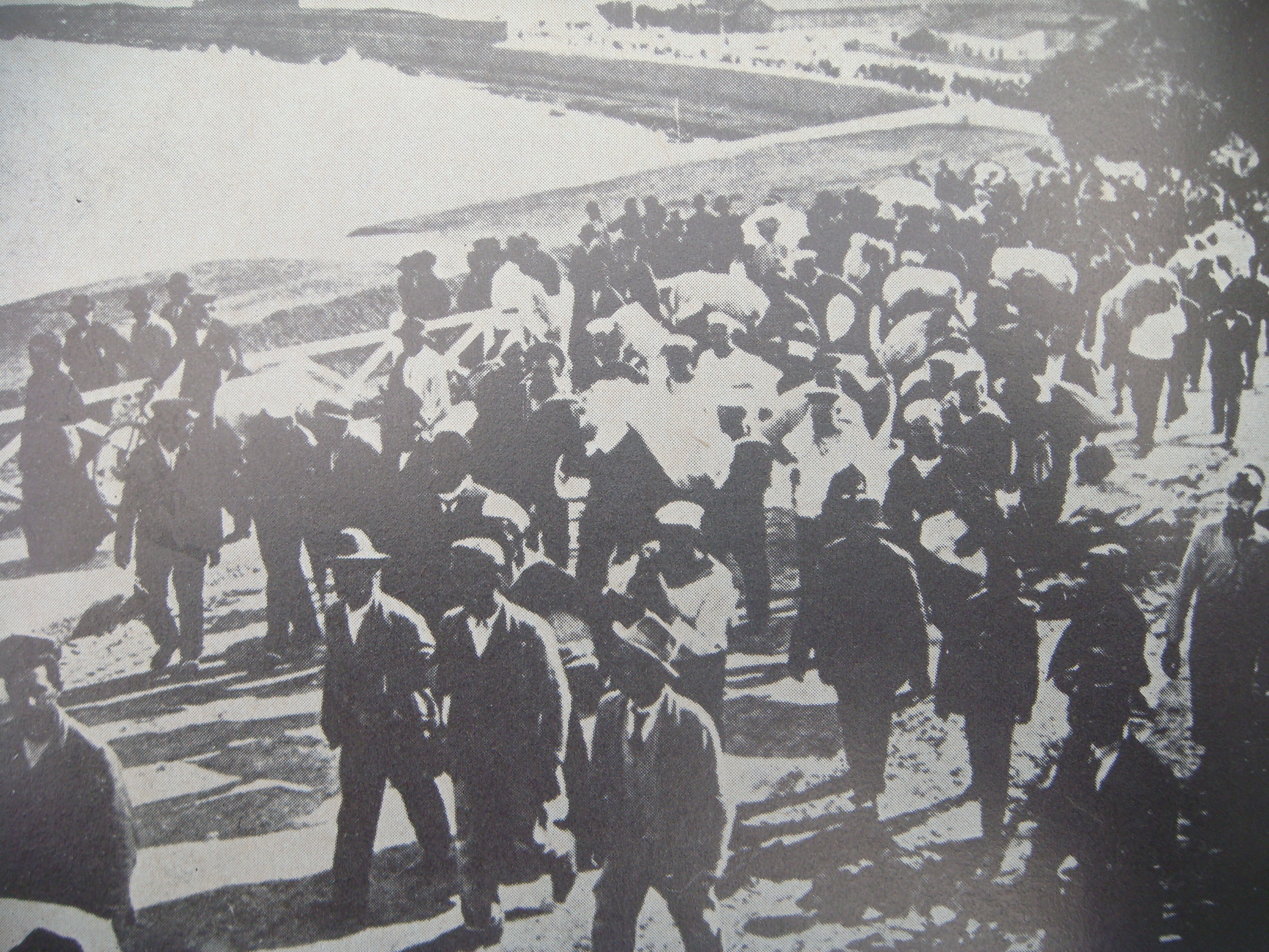 Mutiny on board Russian battleship Knyaz Potemkin of June 1905. Crew of Potemkin in Constanza port ashore, after escape from Russian waters.